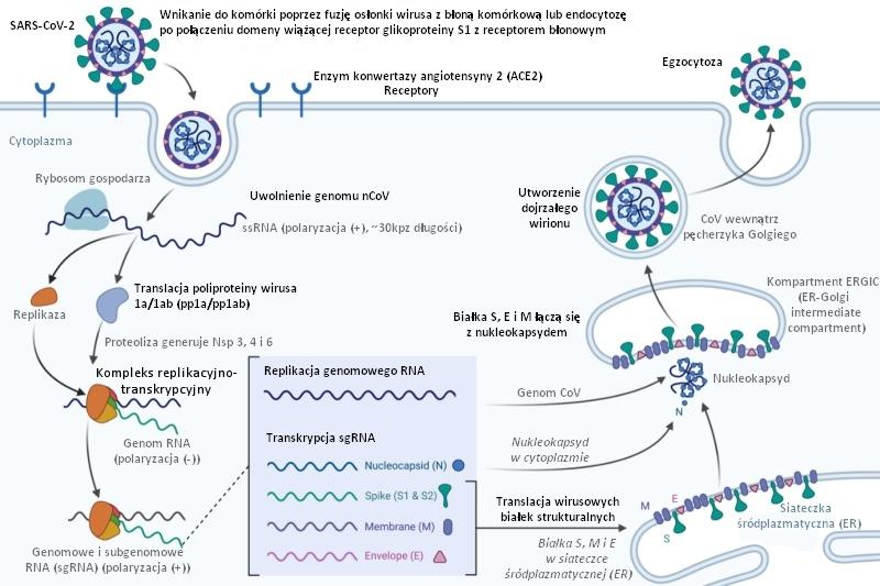 SARS-CoV-2 virus replication process. Translated from English original: The original contributed by Rohan Bir Singh, MD Rohan Bir Singh, MD.